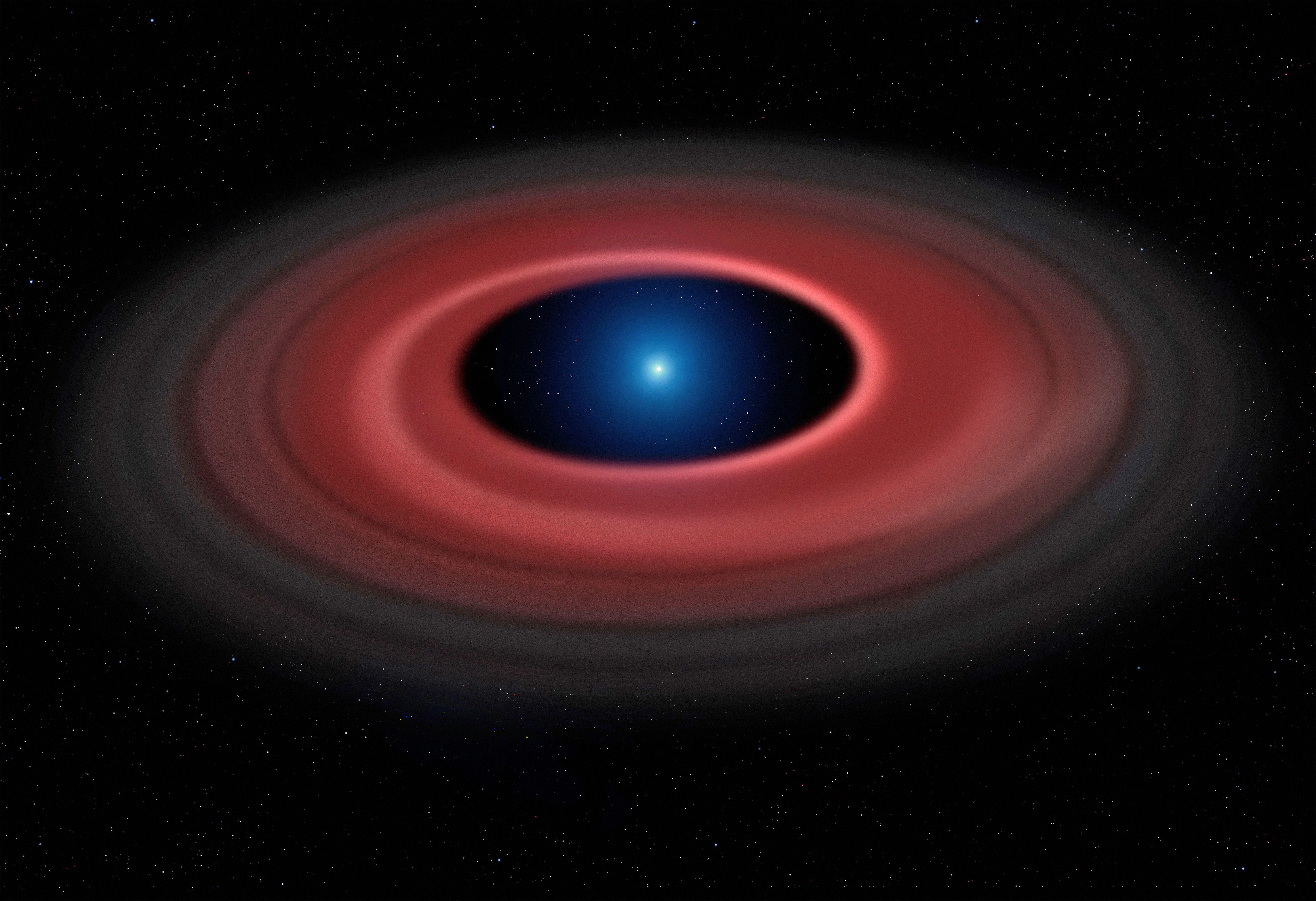 This artist’s impression shows how an asteroid torn apart by the strong gravity of a white dwarf has formed a ring of dust particles and debris orbiting the Earth-sized burnt out stellar core SDSS J1228+1040. Gas produced by collisions within the disc is detected in observations obtained over twelve years with ESO’s Very Large Telescope, and reveal a narrow glowing arc.